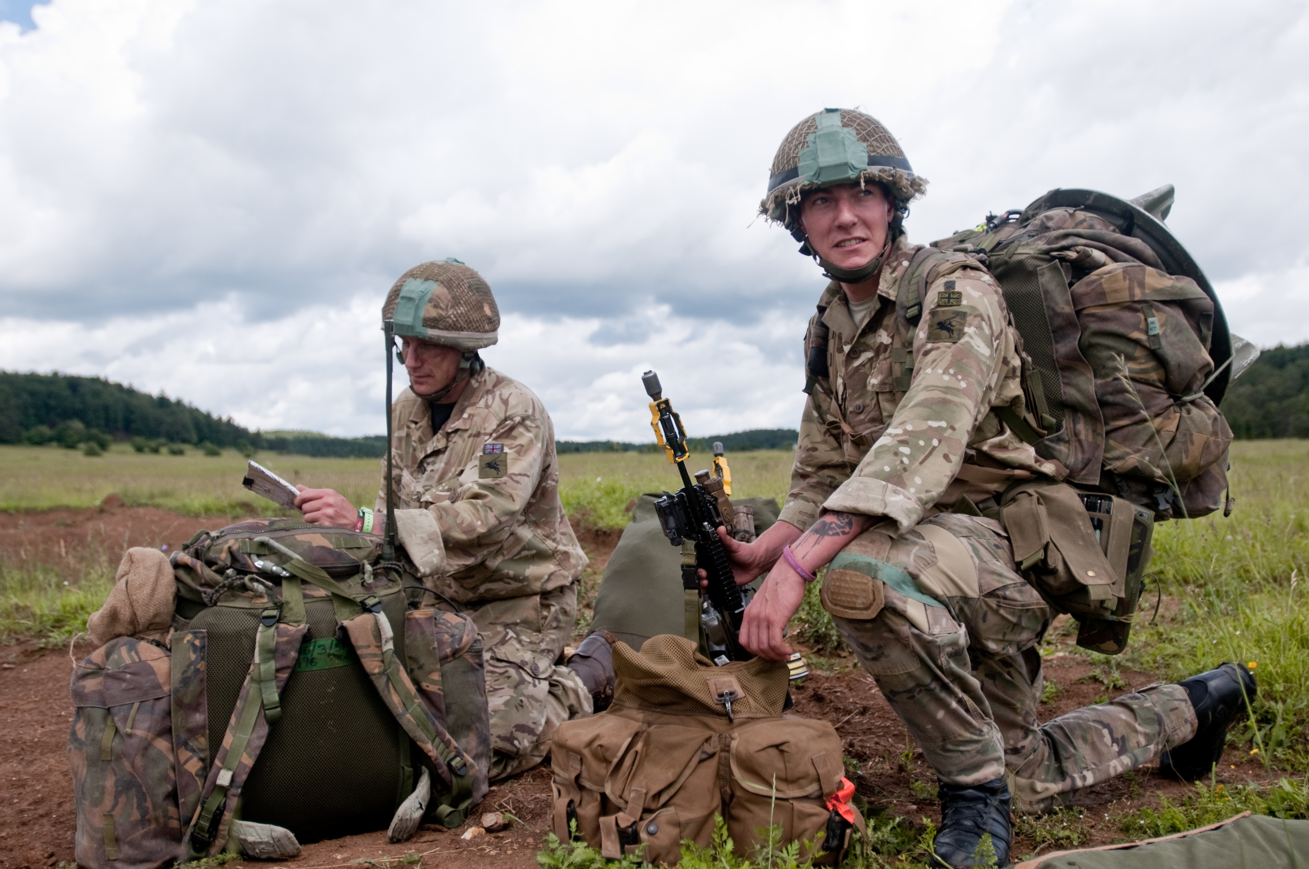 British Paratroopers with the 3 Para Battle Group orient themselves on a map after conducting an airborne operation as part of exercise Swift Response at the Hohenfels Training Area in Germany. The exercise is one of the premier military crisis response training events for multinational Airborne forces in the world. The training is designed to enhance the readiness of the combat core of the U.S. Global Response Force – currently the 82nd Airborne's 1st Brigade Combat Team – to conduct rapid-response, joint forcible entry and follow-on operations alongside Allied high-readiness forces in Europe. Swift Response 16 includes more than 5,000 Soldiers and Airmen from Belgium, France, Germany, Britain, Italy, the Netherlands, Poland, Portugal, Spain, and the United States and takes place in Poland and Germany, May 27-June26, 2016.(U.S. Army photo by Sgt. Praxedis Pineda) Unit: 100th Mobile Public Affairs Detachment